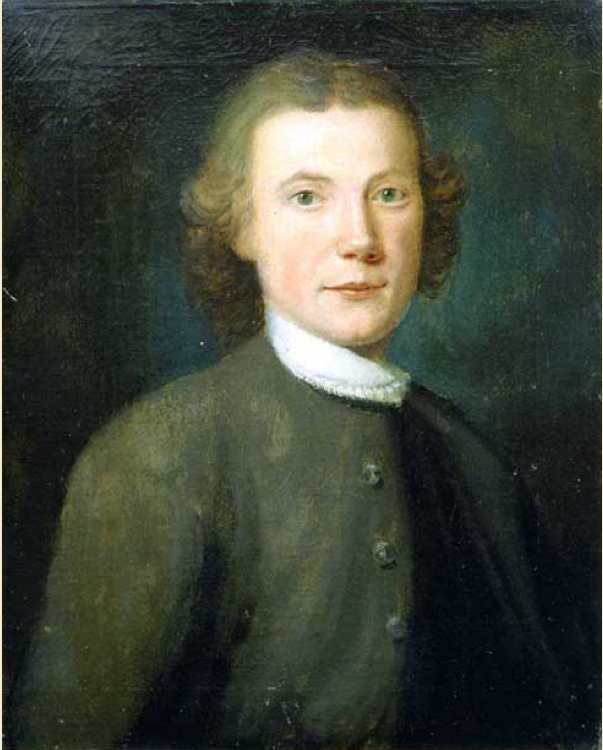 John Ettwein, 1754. Artwork by John Valentine Haidt. Portrait of Bishop John Ettwein. John Ettwein (1721-1802) and his wife came to America in 1754. Their portraits were painted by a fellow traveler, John Valentine Haidt, supposedly during the voyages. In 1772, John Ettwein and his group of some 200 Lenape and Mohican Christians traveled west along The Great Shamokin Path from their village of Friedenshütten (Cabins of Peace) near modern Wyalusing on the North Branch Susquehanna River to their new village of Friedensstadt (City of Peace) on the Beaver River in southwestern Pennsylvania. During the Revolutionary War, Ettwein was the chief spokesman to the Continental Congress and other officials on behalf of the Moravians in Pennsylvania. He was consecrated a Bishop in 1784, and became head of the governing board of the Moravian Church in America. Oil on canvas, 25 in. x 17.5 in. Moravian Historical Society, Nazareth.